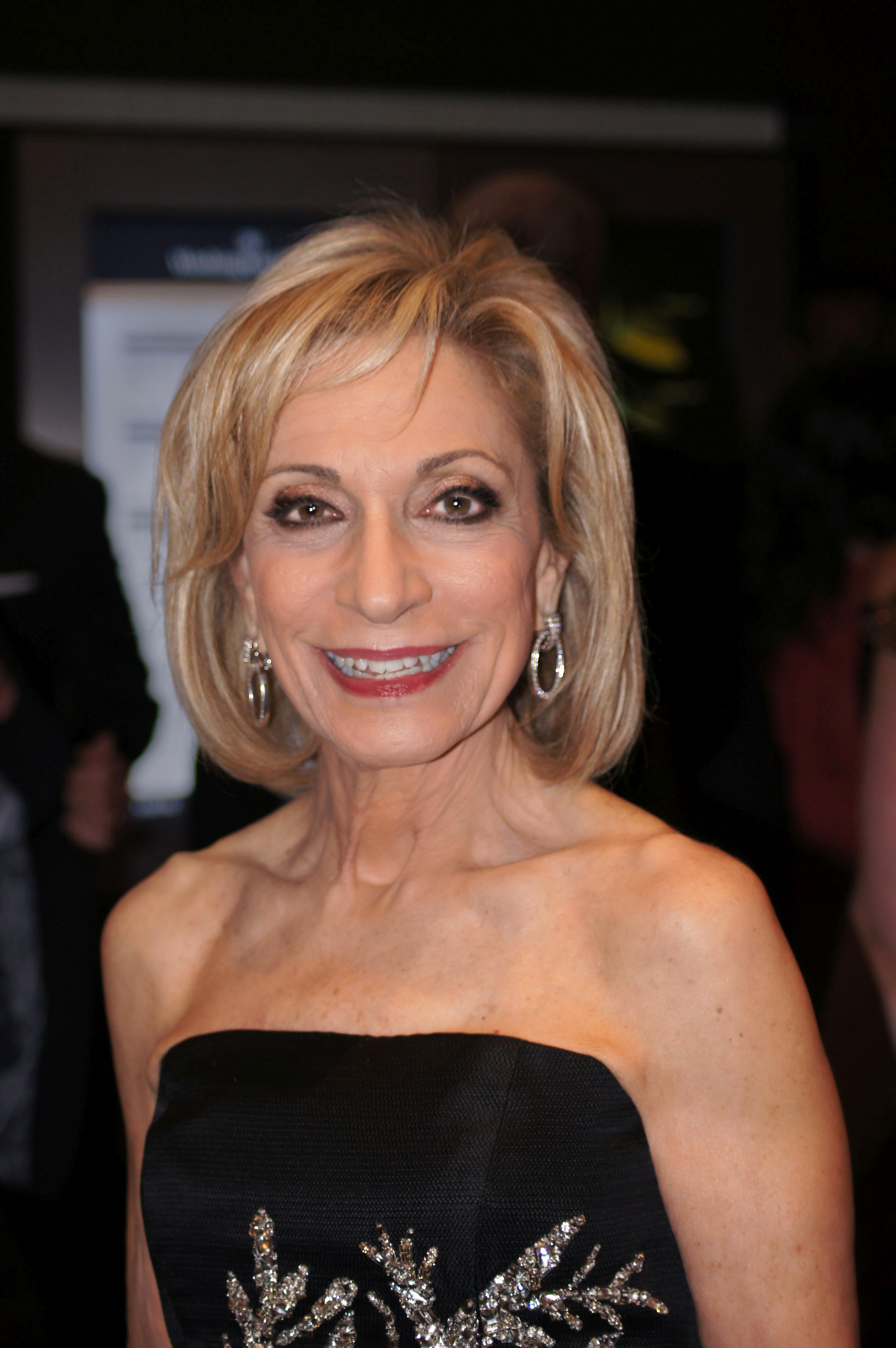 From Wash D.C. correspondents dinner April 27. 2019